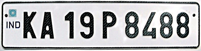 A typical Karnataka vehicle number plate.